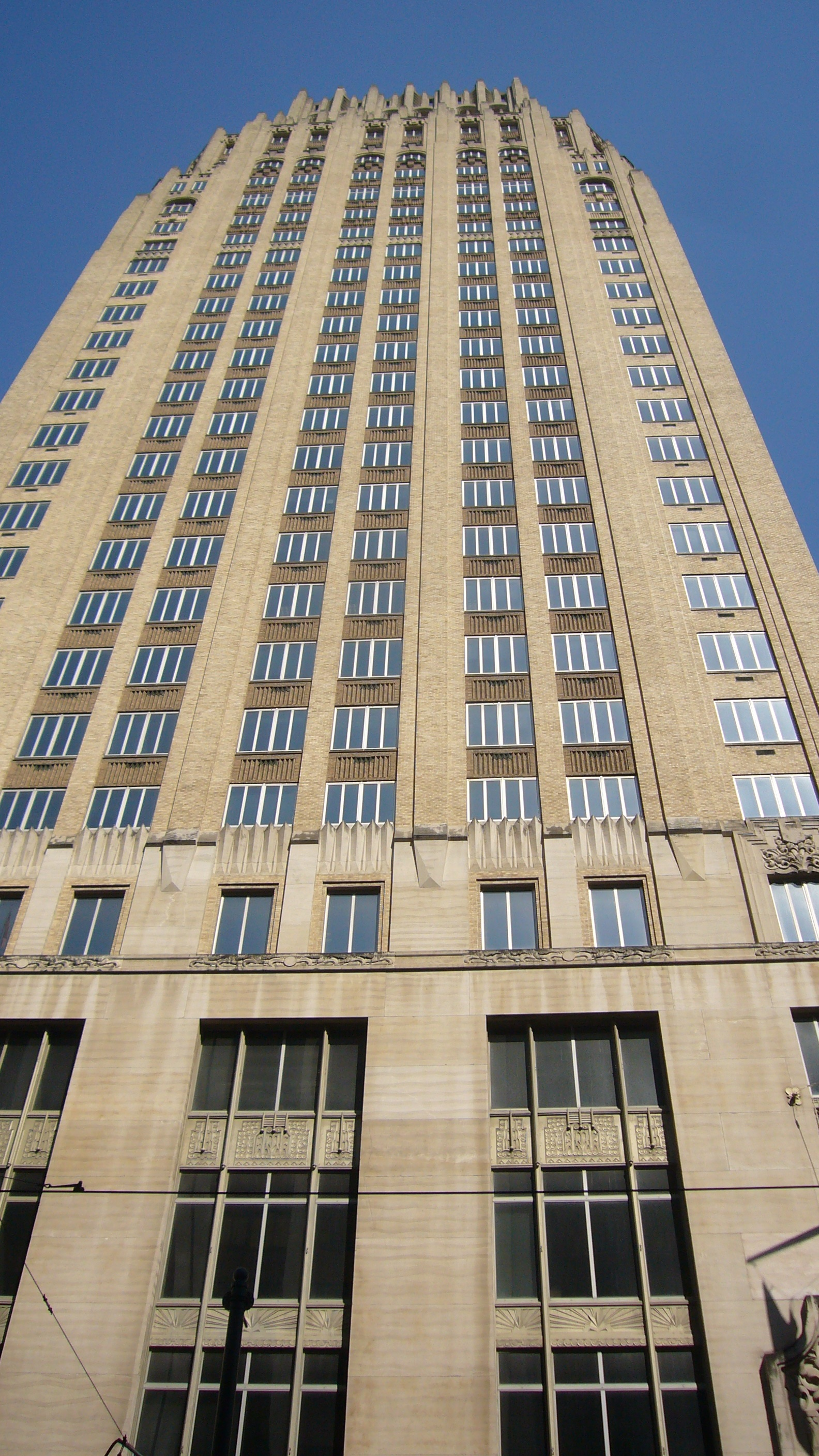 JP Morgan Chase Building, Houston, Texas, not to be confused with the JPMorgan Chase Tower in the same city. The building has the headquarters of the Houston operations of JPMorgan Chase Bank, and the building was formerly the headquarters of Texas Commerce Bank